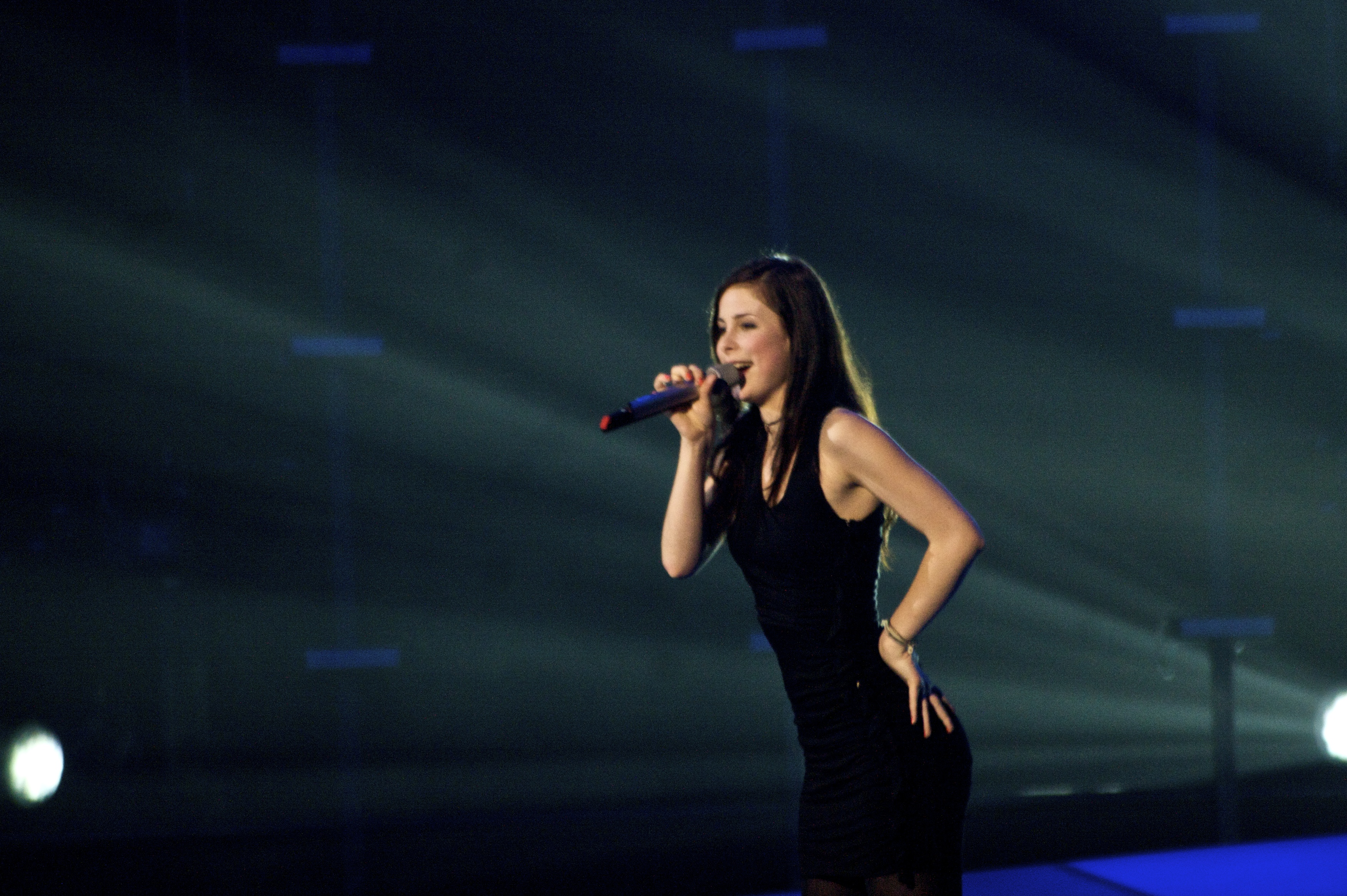 Germany's Eurovision Song Contest participant Lena Meyer-Landrut onstage in the Telenor Arena in Fornebu (during the rehearsals)